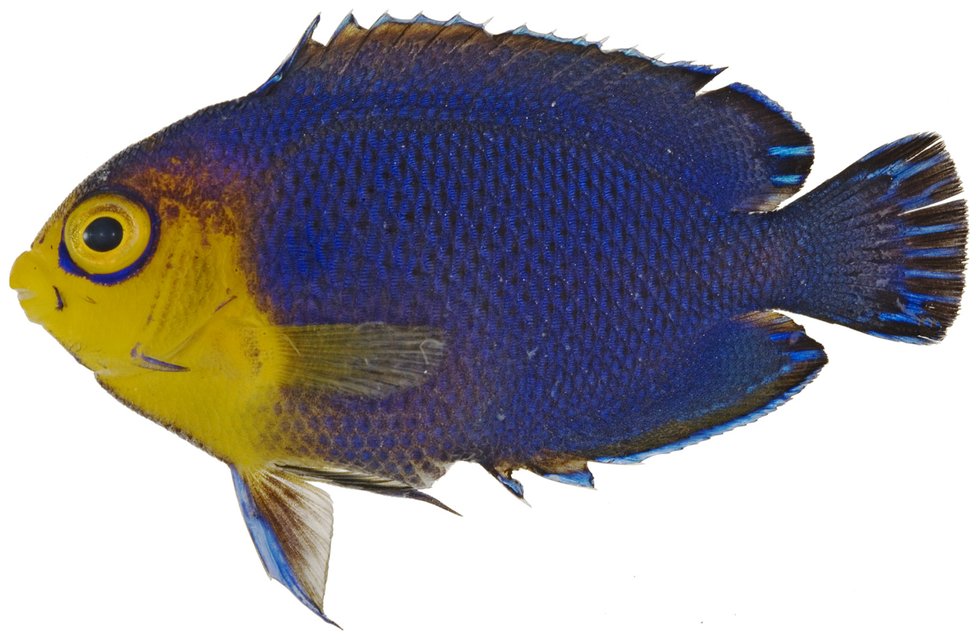 Centropyge argi Woods & Kanazawa, 1951—cherubfish, 33.8 mm SL. Photo by JT Williams.